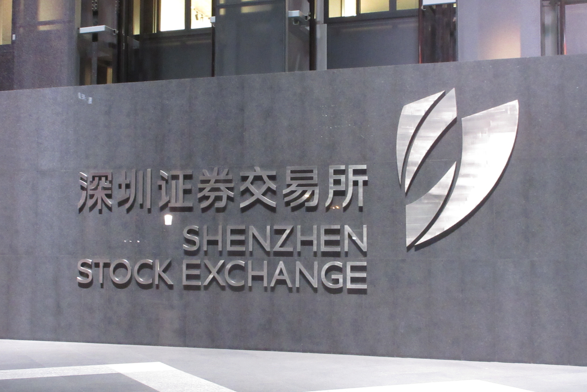 SZ 深圳 Shenzhen 福田 Futian Fuzhong 3rd Road 深圳證券交易所 SZSE Stock Exchange in November 2017